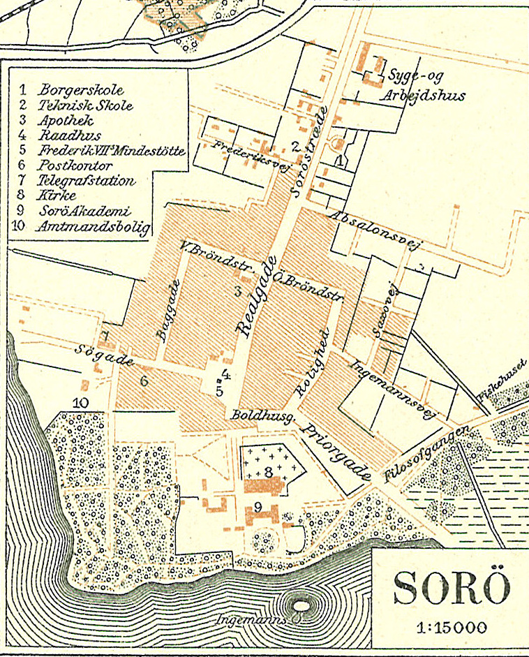 Map of Sorø in Denmark ca. 1900; part of Image:Soroe Amt.jpg